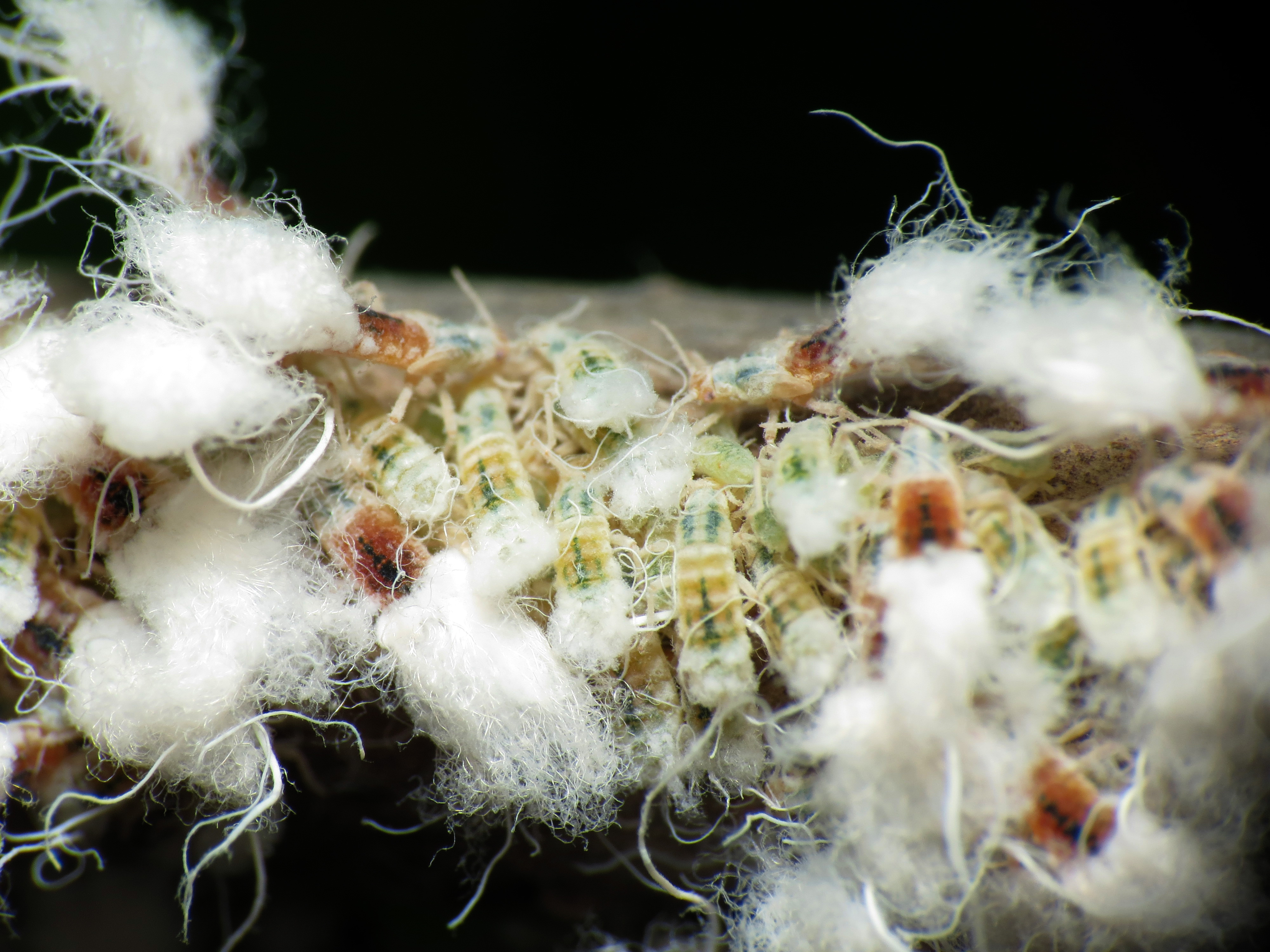 Grylloprociphilus imbricator. Rock Creek Park, Washington, DC, USA